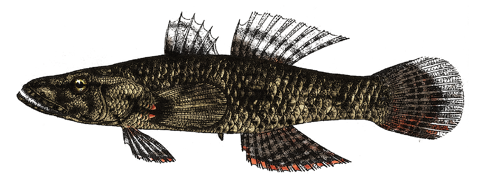 Crazy fish, Butis butis (Hamilton, 1822).Colored from original. Added transparency.